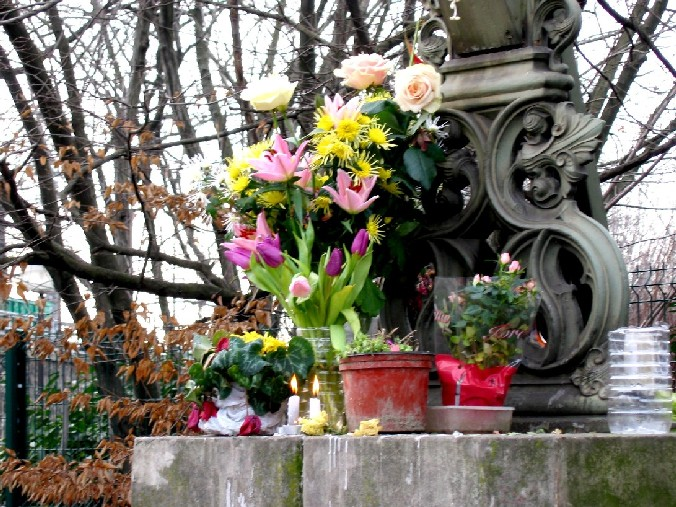 Flowers and candles at the foot of the Croix de l'Évangile (Cross of the Gospel) on Rue de l'Évangile (Gospel Street), Paris, France.